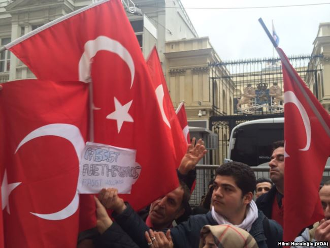 Pro-'yes' protests after diplomatic escalation between Turkey and Holland, 11-12 March 2017